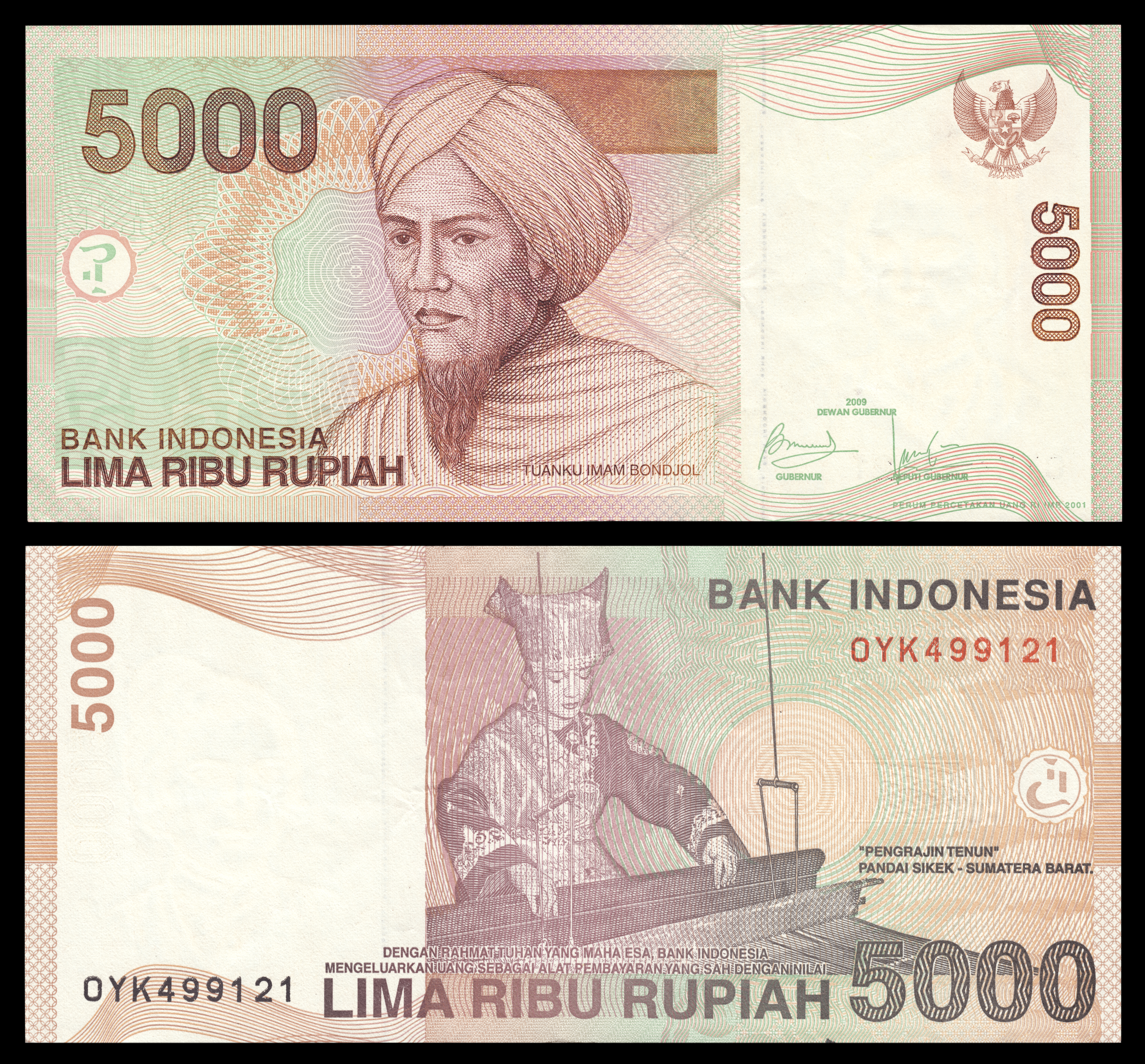 5000 rupiah bill from Indonesia, 2001 series (2009 date), processed, obverse+reverse.